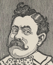 John J. Feely, US Representative from Illinois